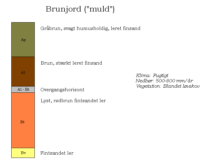 Layers of brown earth (Danish text) Drawing: Sten Porse